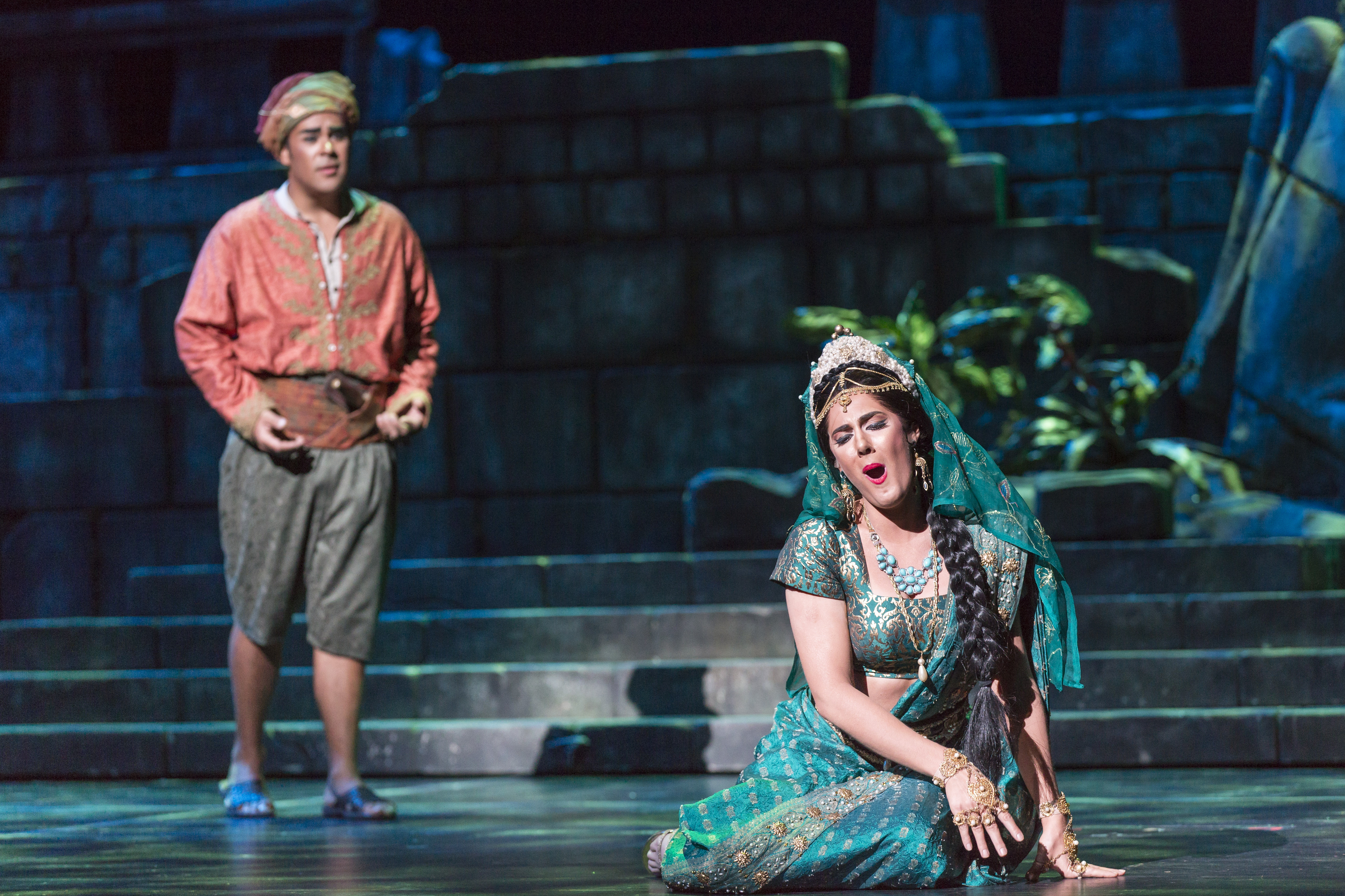 The Florida Grand Opera production of The Pearl Fishers----Photo by Rod Millington First dress rehearsal